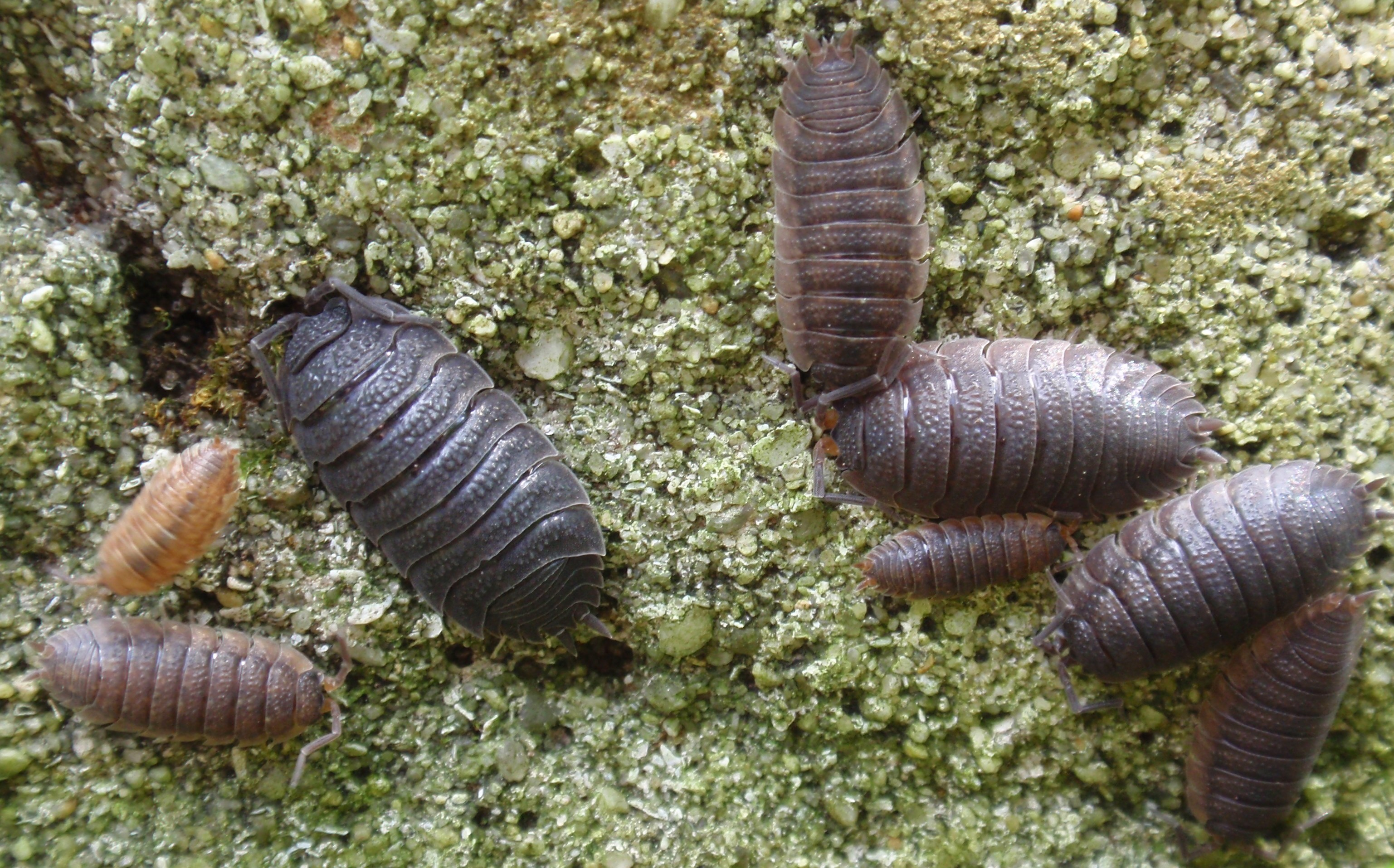 Common rough woodlouse (porcellio scaber)